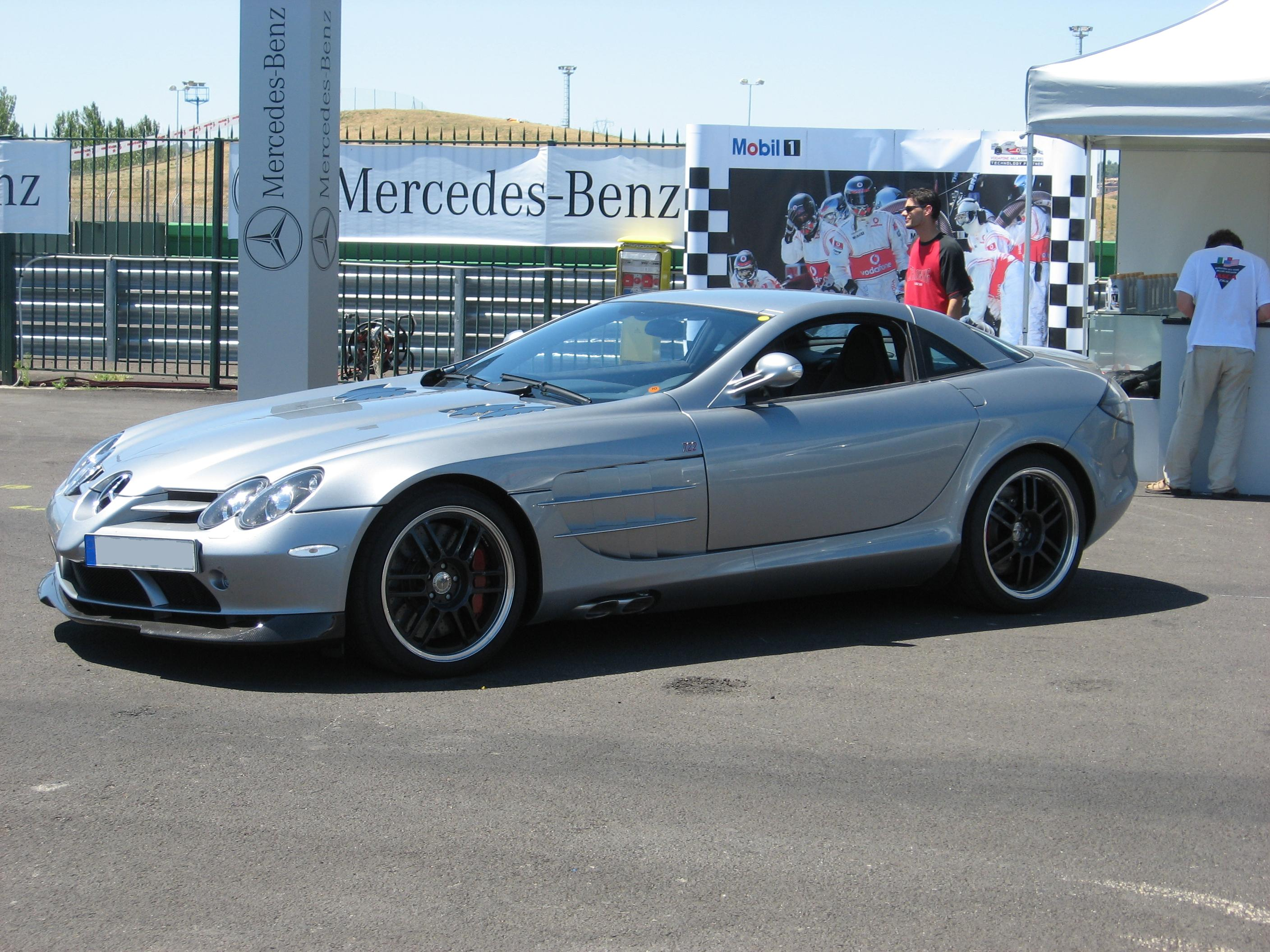 Subject: Mercedes-Benz SLR McLaren 722 Coupé Date: July 15th, 2007 Place/Country: "Santa Monica" Circuit, Misano Adriatica (RN), Italy Event: Auto Kit Show 2007 I release all rights in the public domain.